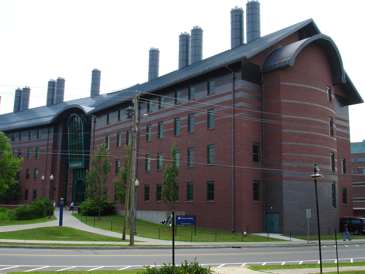 University of Connecticut Chemistry Building. Taken by me, 27 Apr 2005.